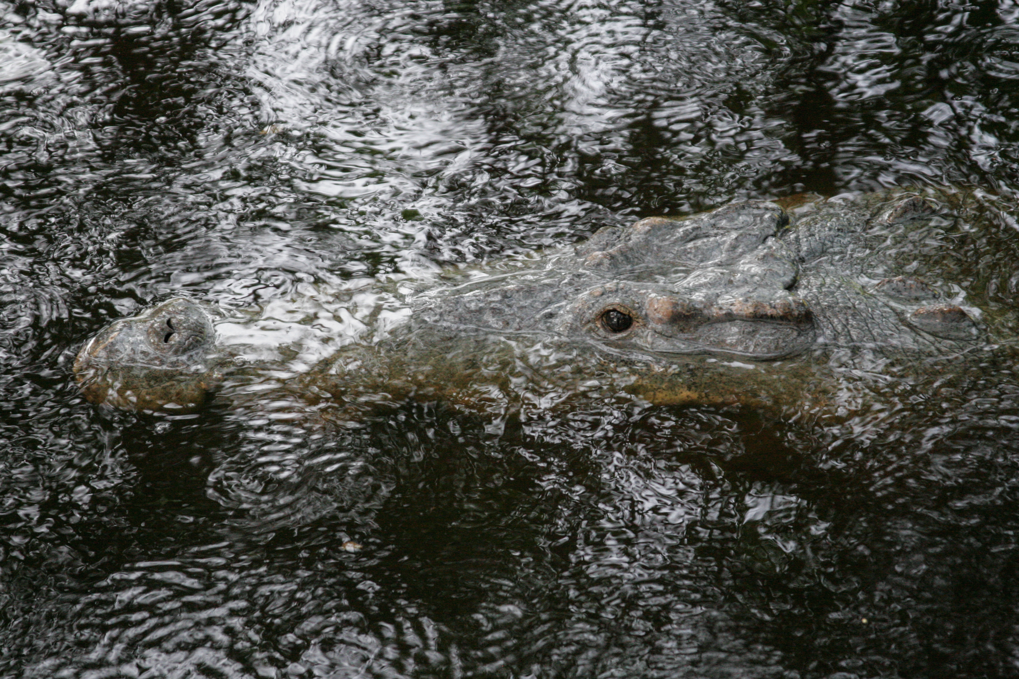 American crocodile. Taken at La Manzanilla, Jalisco, Mexico, site of a beautiful well preserved mangrove for eco-tourism next to a still-semi-virgin área and cool town to relax, with uncrowded calm beach in Tenacatita Bay. Paradise.